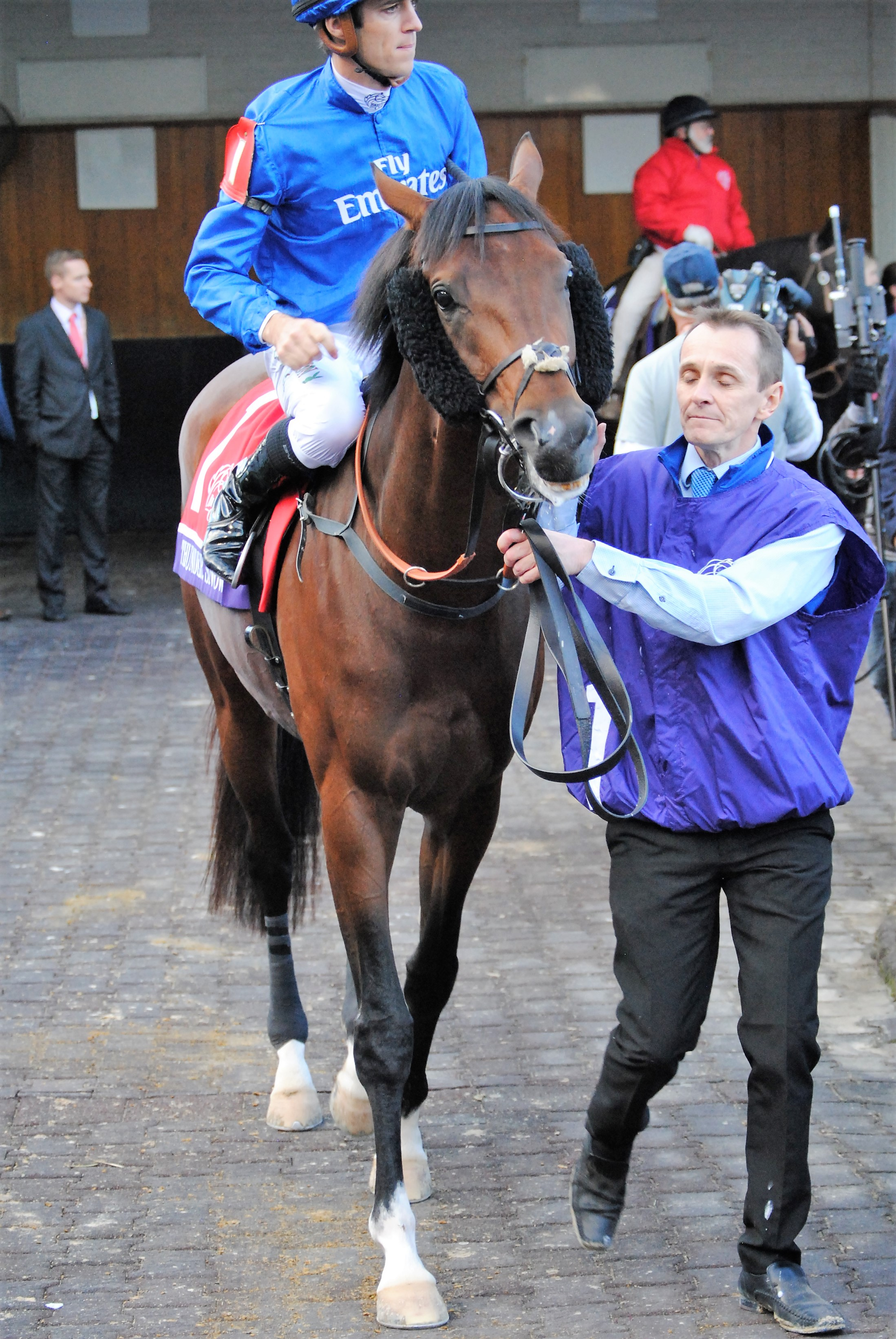 Thunder Snow and jockey Christophe Soumillon at the 2018 Breeders' Cup